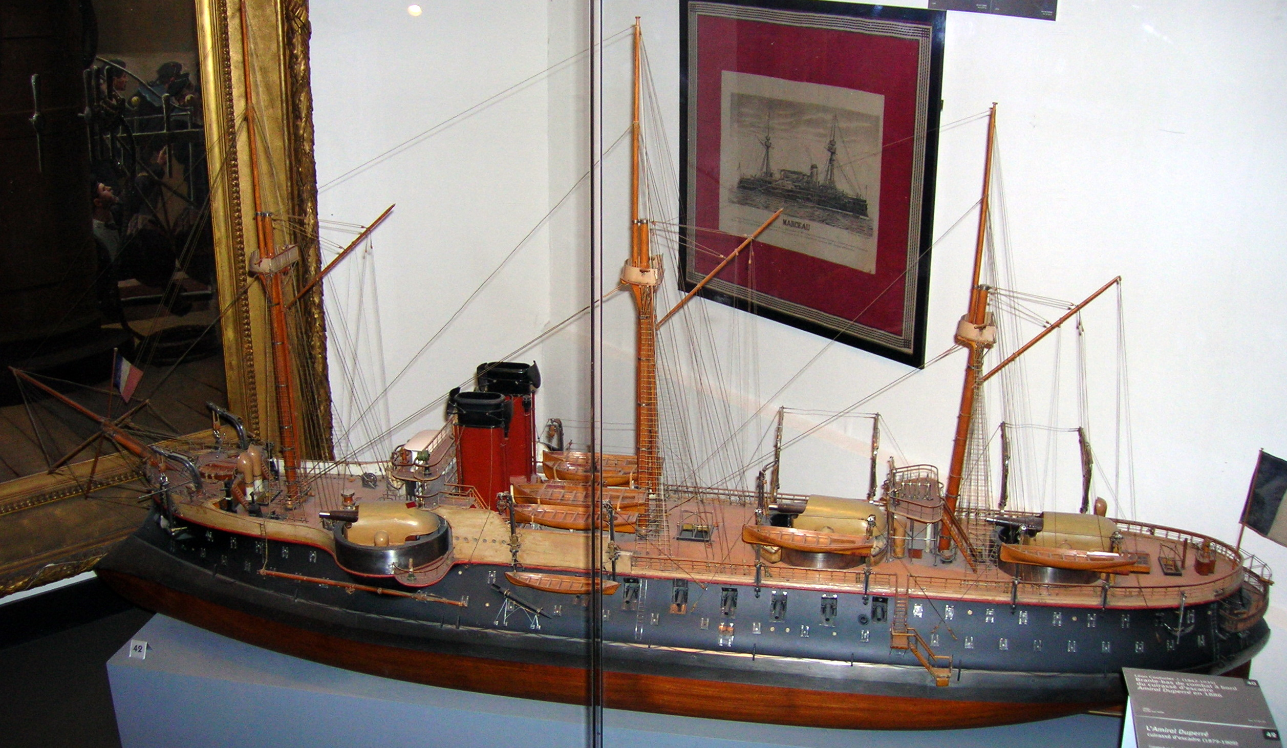 Model of the French ship Amiral Duperré, 1879 - 1909.